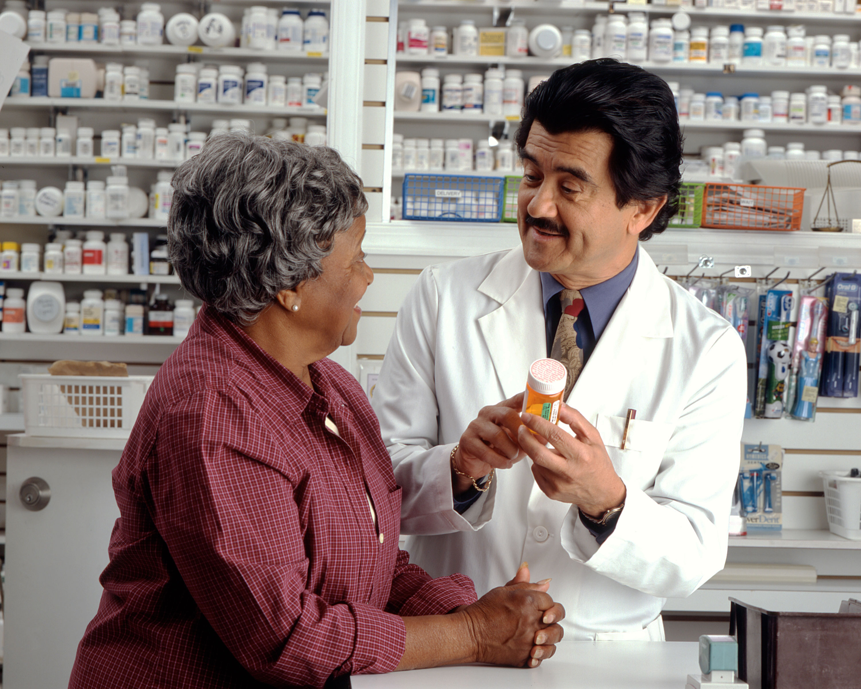 Title Woman Consults with Pharmacist Description An older African-American woman talks to a Hispanic male pharmacist as he explains her prescription. Topics/Categories Locations -- Clinic/Hospital People -- Adult People -- Health Professional and Patient Type Color, Photo Source National Cancer Institute ਪੰਜਾਬੀ: ਇੱਕ ਔਰਤ ਇੱਕ ਫਾਰਮਾਸਿਸਟ ਨਾਲ ਸਲਾਹ ਕਰਦੀ ਹੋਈ।